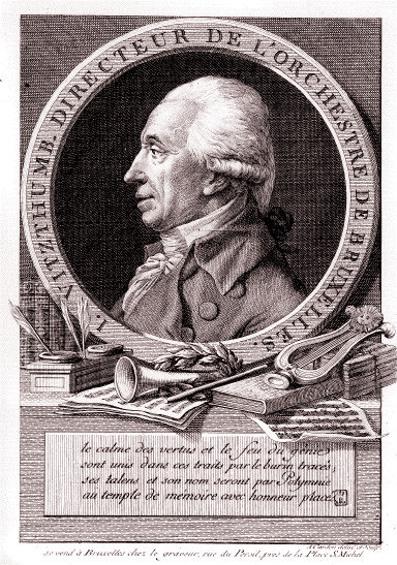 Ignace (Ignaz) Vitzthumb, composer born 1726; died 1816